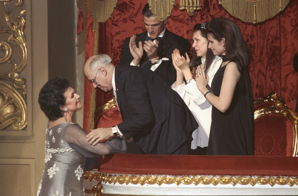 “Galina Vishnevskaya's anniversary concert at the State Academic Bolshoi Theater”. From left: Opera singer Galina Vishnevskaya [lyrical-dramatic soprano, born in 1926] and her husband, outstanding Russian cello player, orchestra conductor and People's Artist of the USSR Mstislav Rostropovich [1927-2007] during concert marking 45th anniversary of Vishnevskaya's creative work.